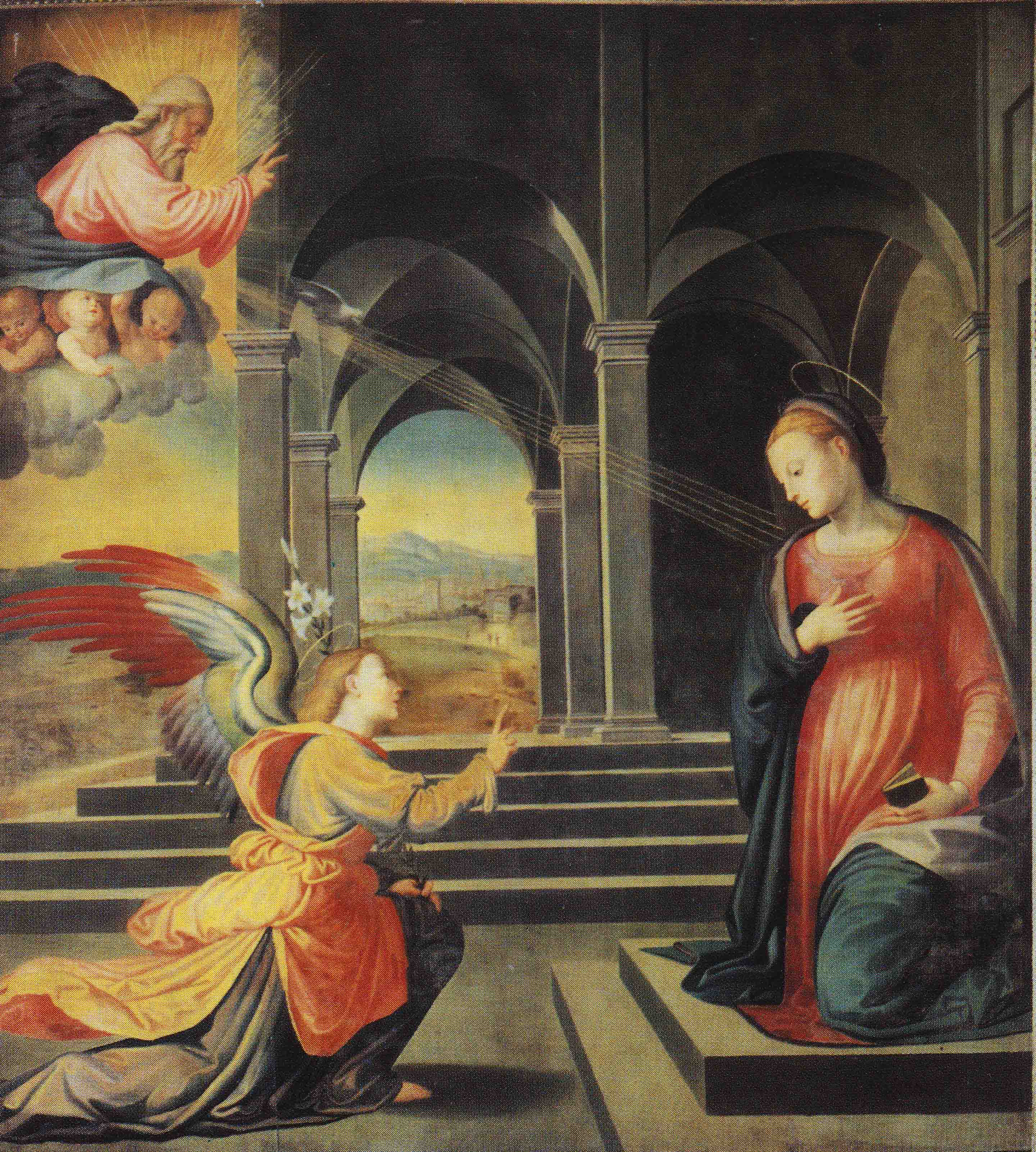 see title